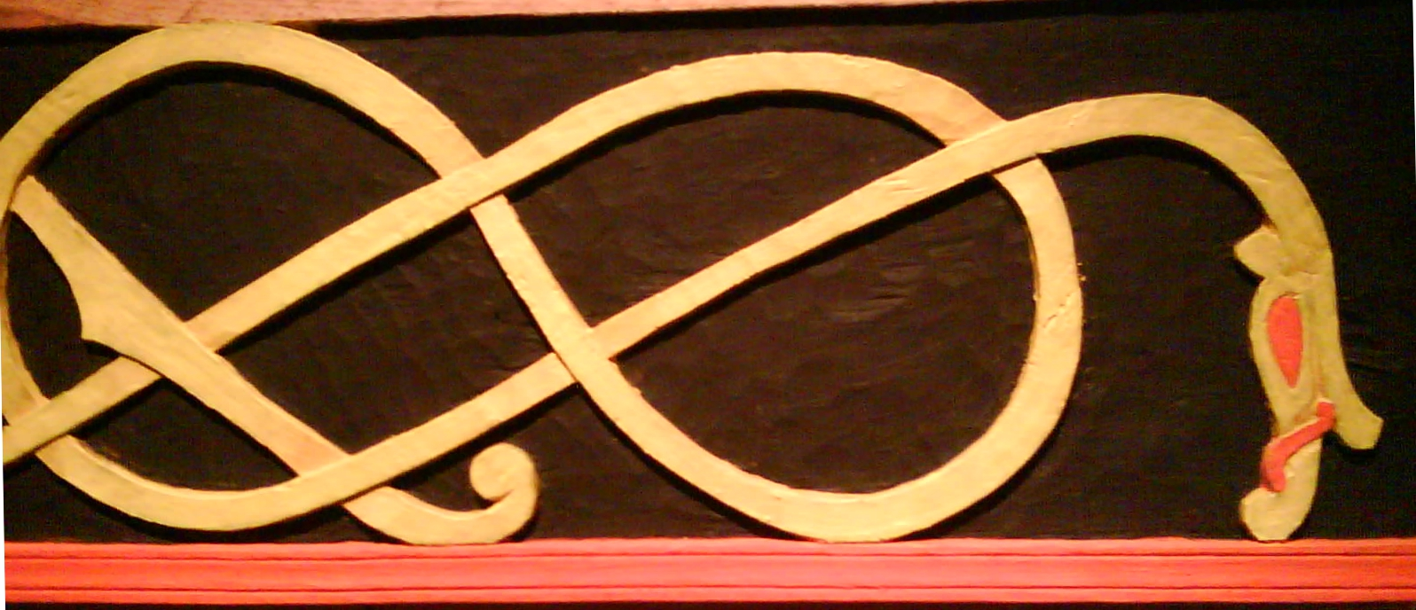 Modern reconstruction of a 11th century wooden plank from Hørning, Randers, Denmark. The relief is made in the late viking age Urnes style and painted i original colours. Displayed in the museum Bork Vikingehavn, Denmark.